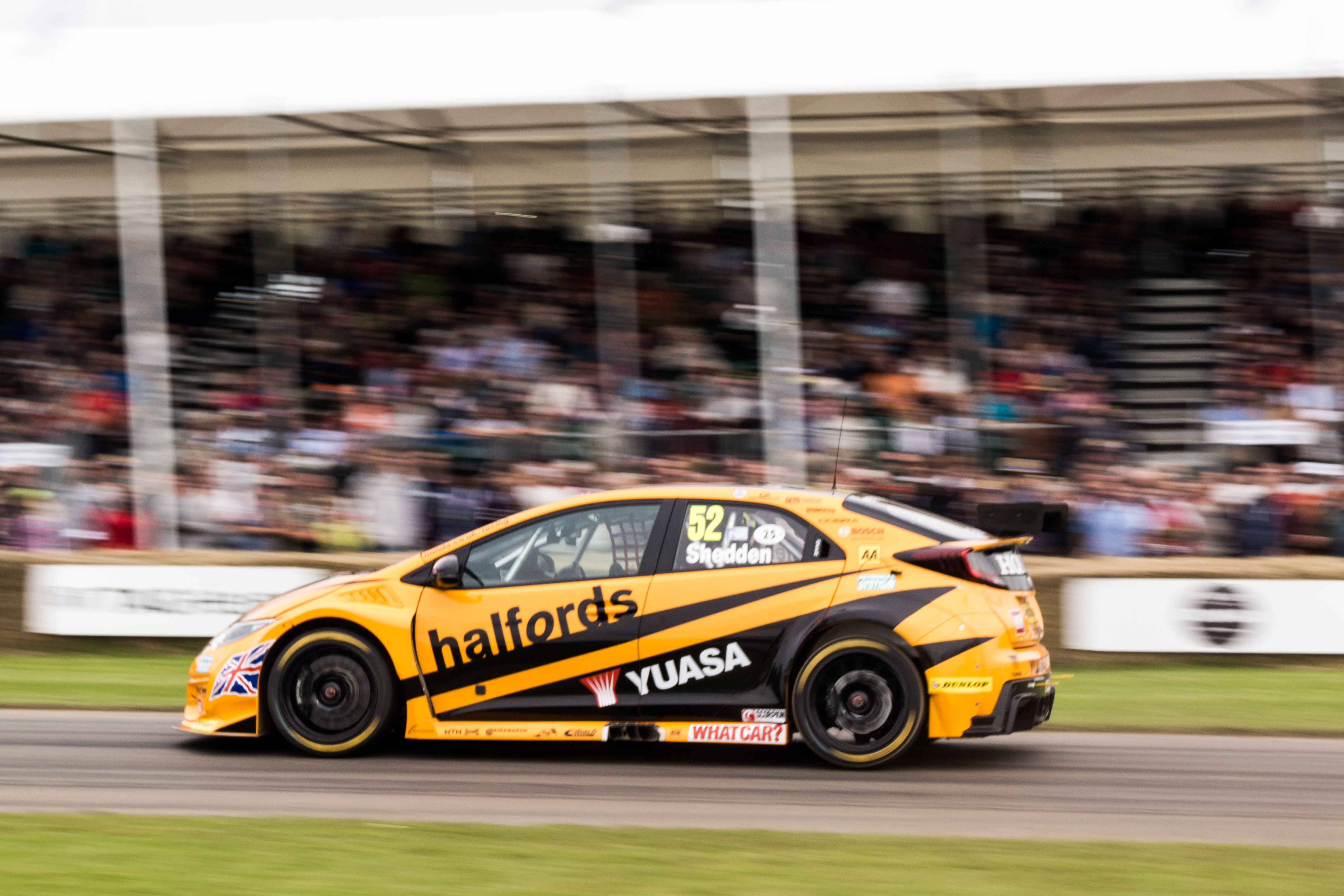 Honda Civic Type-R at the Goodwood Festival of Speed, 2016